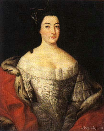 Catherine Ivanovna (1691-1733), daughter of Ivan V